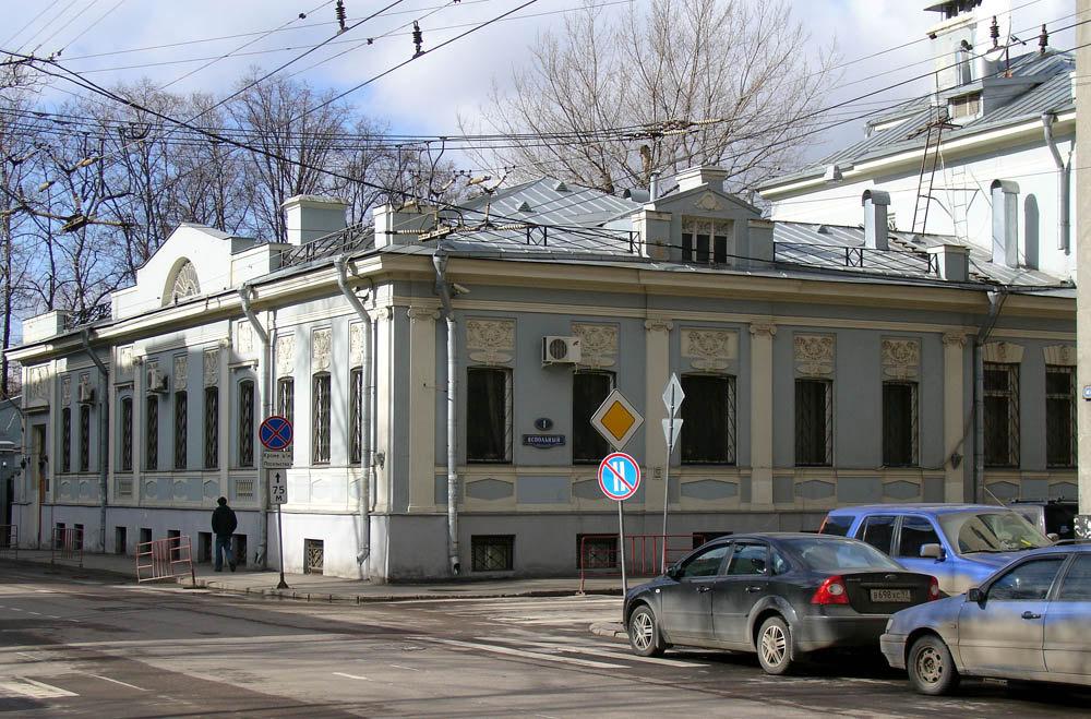 Mindovsky House, corner of Malaya Nikitskaya Street and Vspolny Lane, Moscow